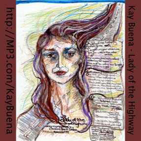 Lady of the Highway CD cover. Created by Kay Buena (original drawing) and Charles Sauer (CD Cover for ).